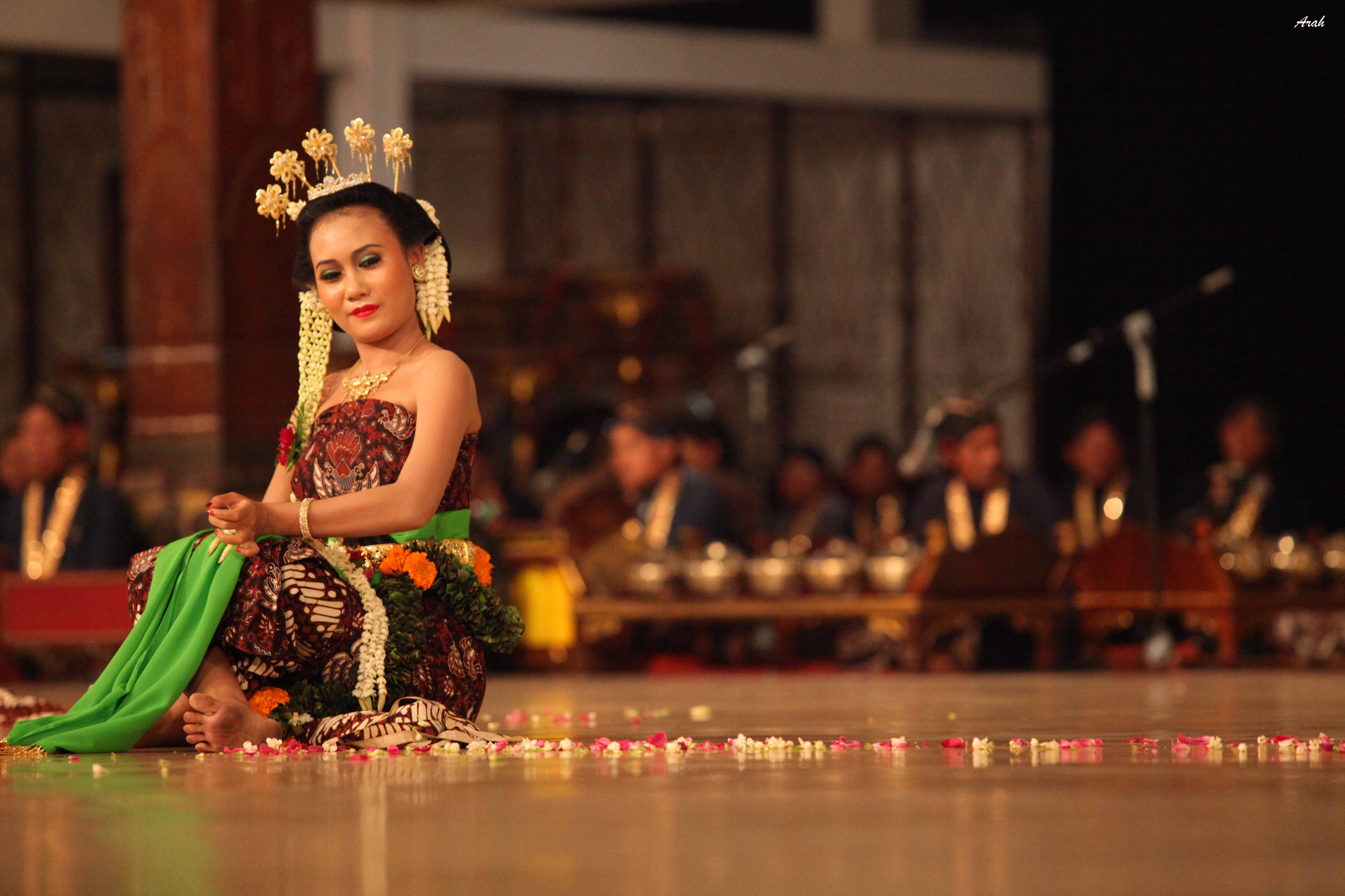 Srimpi Dhempel dance, choreography by King Paku Buwana VII of Kasunanan Surakarta.